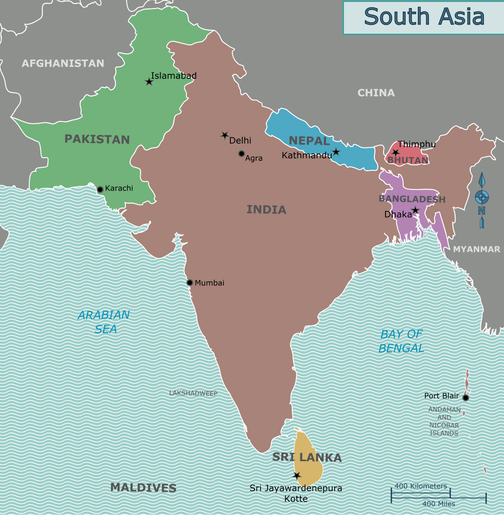 Map of South Asia for use on Wikivoyage, English version